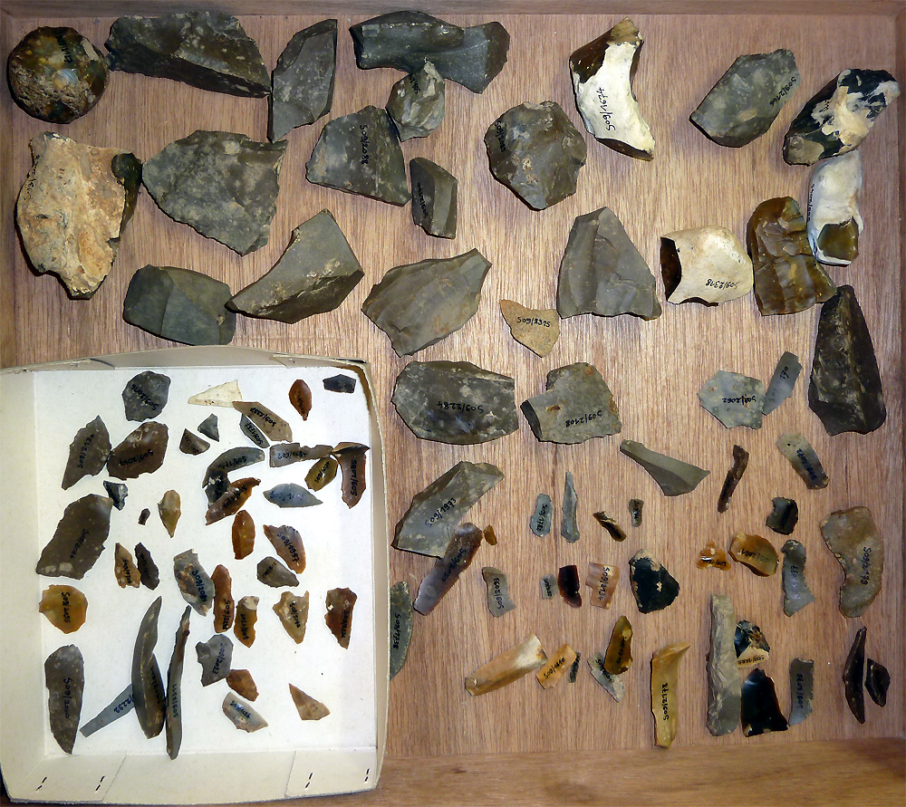 Mesolithic artefacts (most Wommersom quartzite) found during excavation in Stevoort, 2008 (Collection Prehistoric Archeology K.U.Leuven)